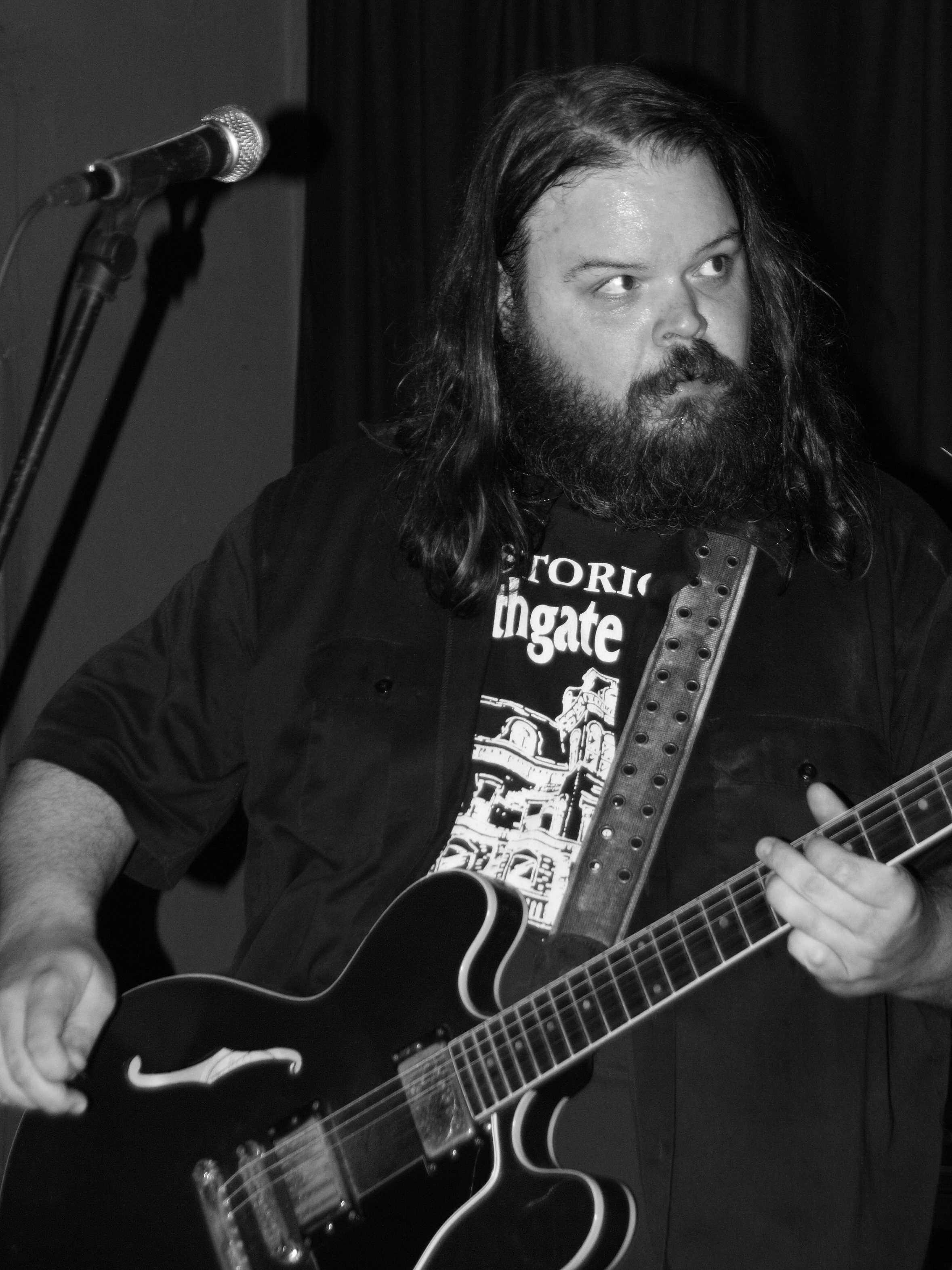 The Kentucky BridgeBurner with Blaine Cartwright, Earl Crim, Rob Hulsman & Todd Gorrell at Club W71, Weikersheim.